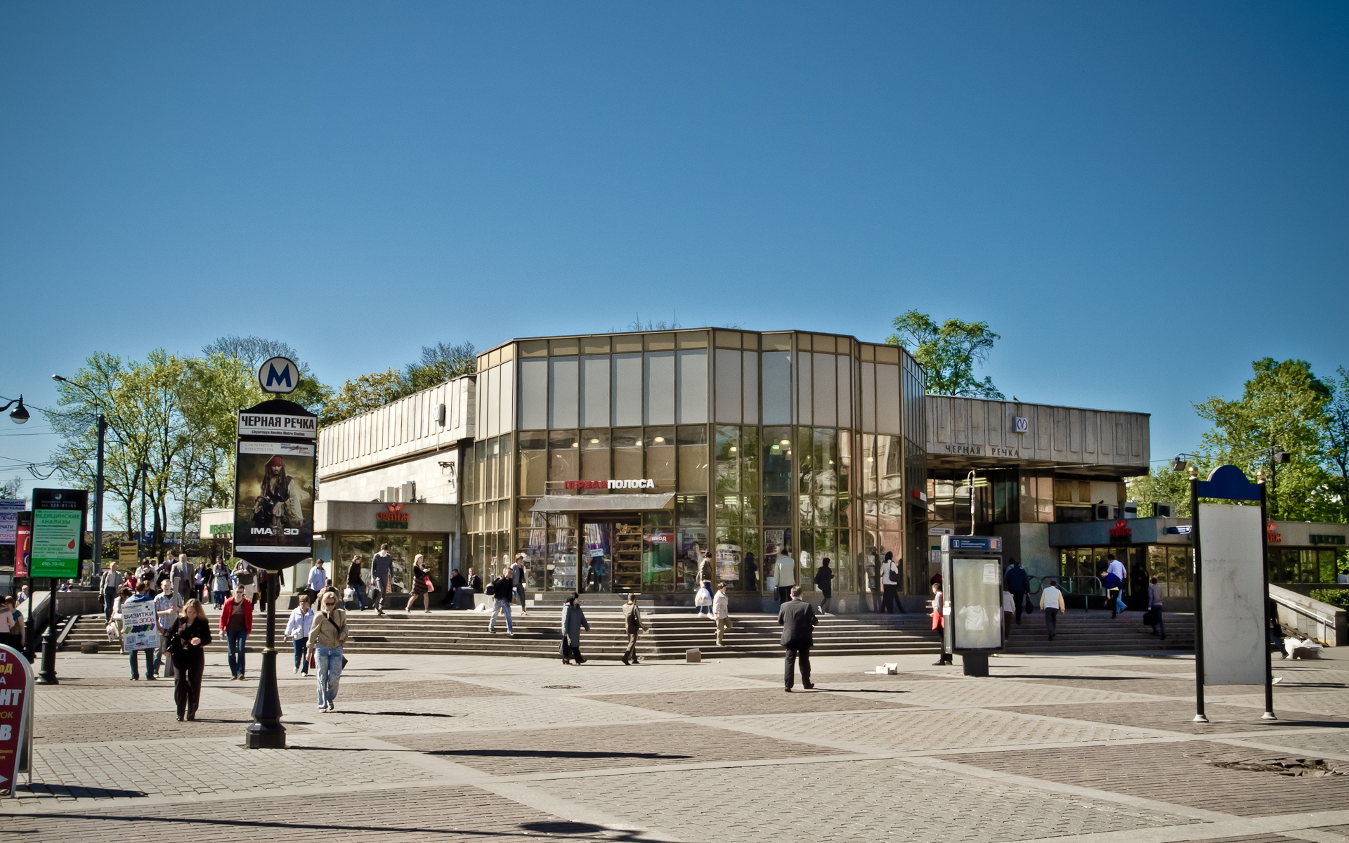 Chyornaya Rechka subway station of Saint Petersburg, pavilion